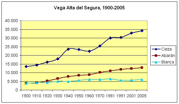 The population of the Vega Alta del Segura region in Murcia, Spain, (1900-2005). Cieza, Abarán (Abaran) and Blanca. Own work, given to PD. Source: Instituto Nacional de Estadística.